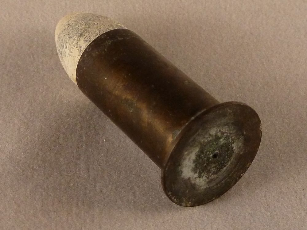 The base of an unfired 52 caliber Maynard cartridge. Photo taken by Michael Helms on December 28, 2010.